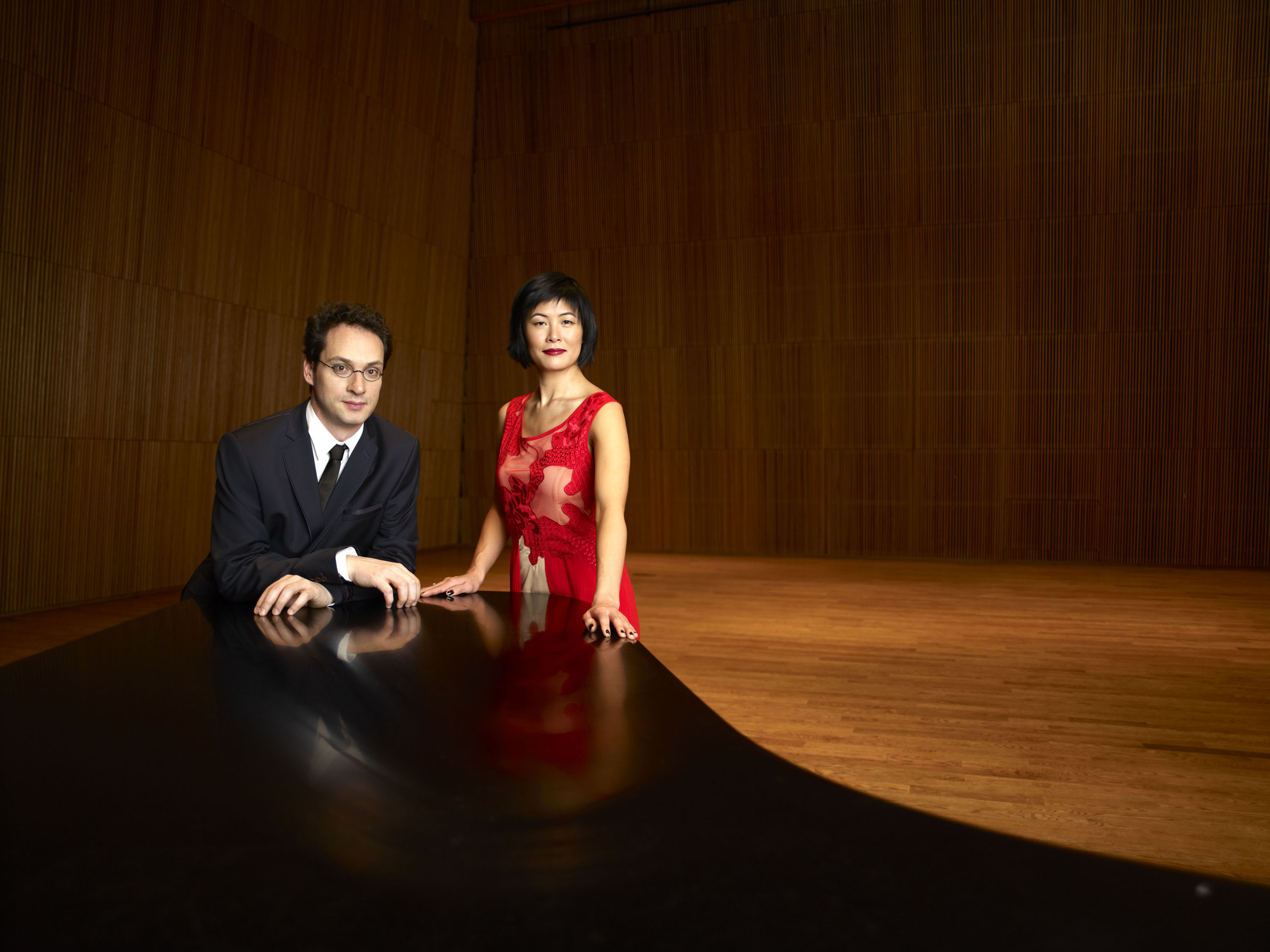 Jennifer Koh and Shai Wosner